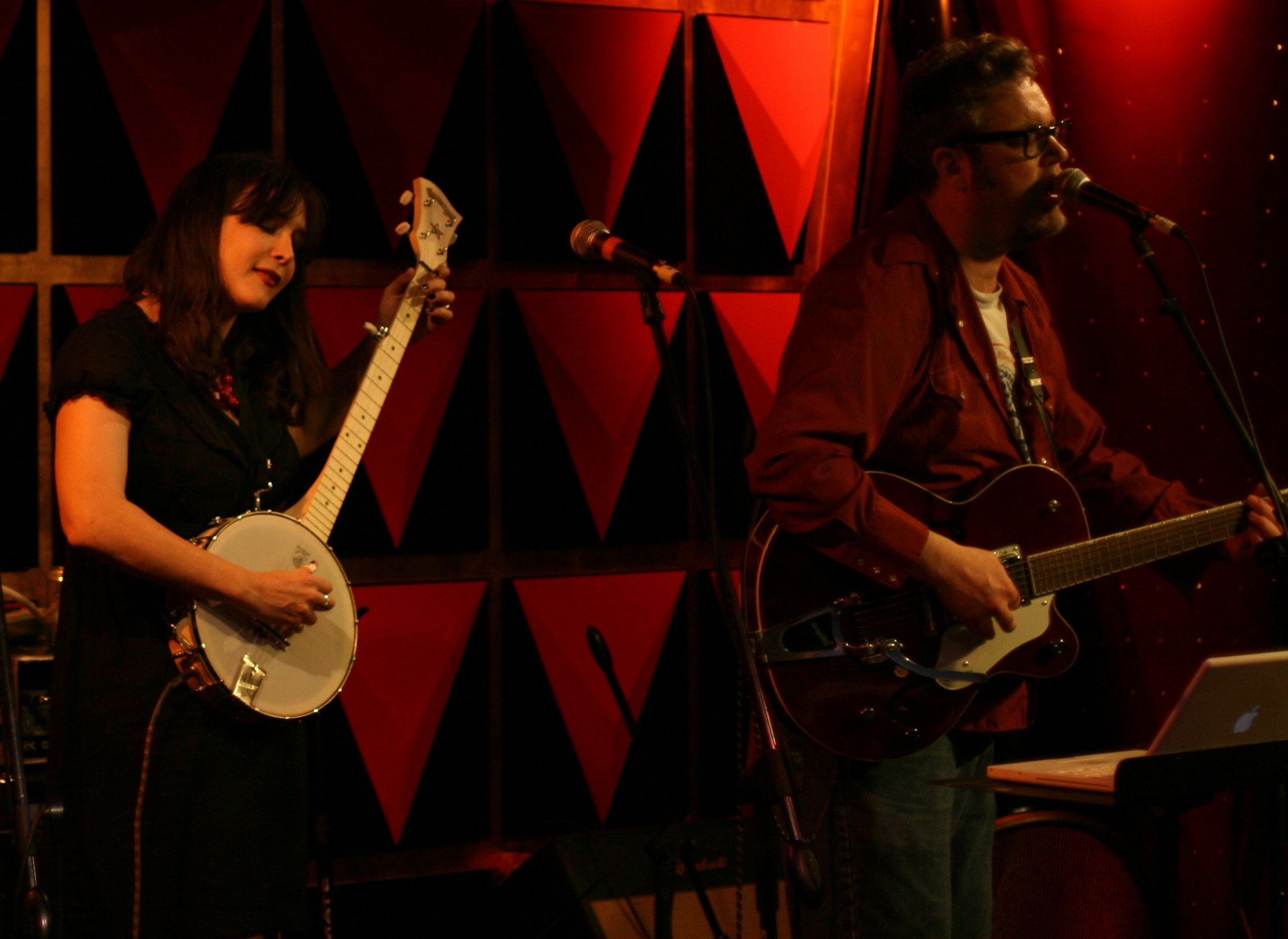 The Handsome Family performing live. Cropped from File:Handsome Family.jpg.